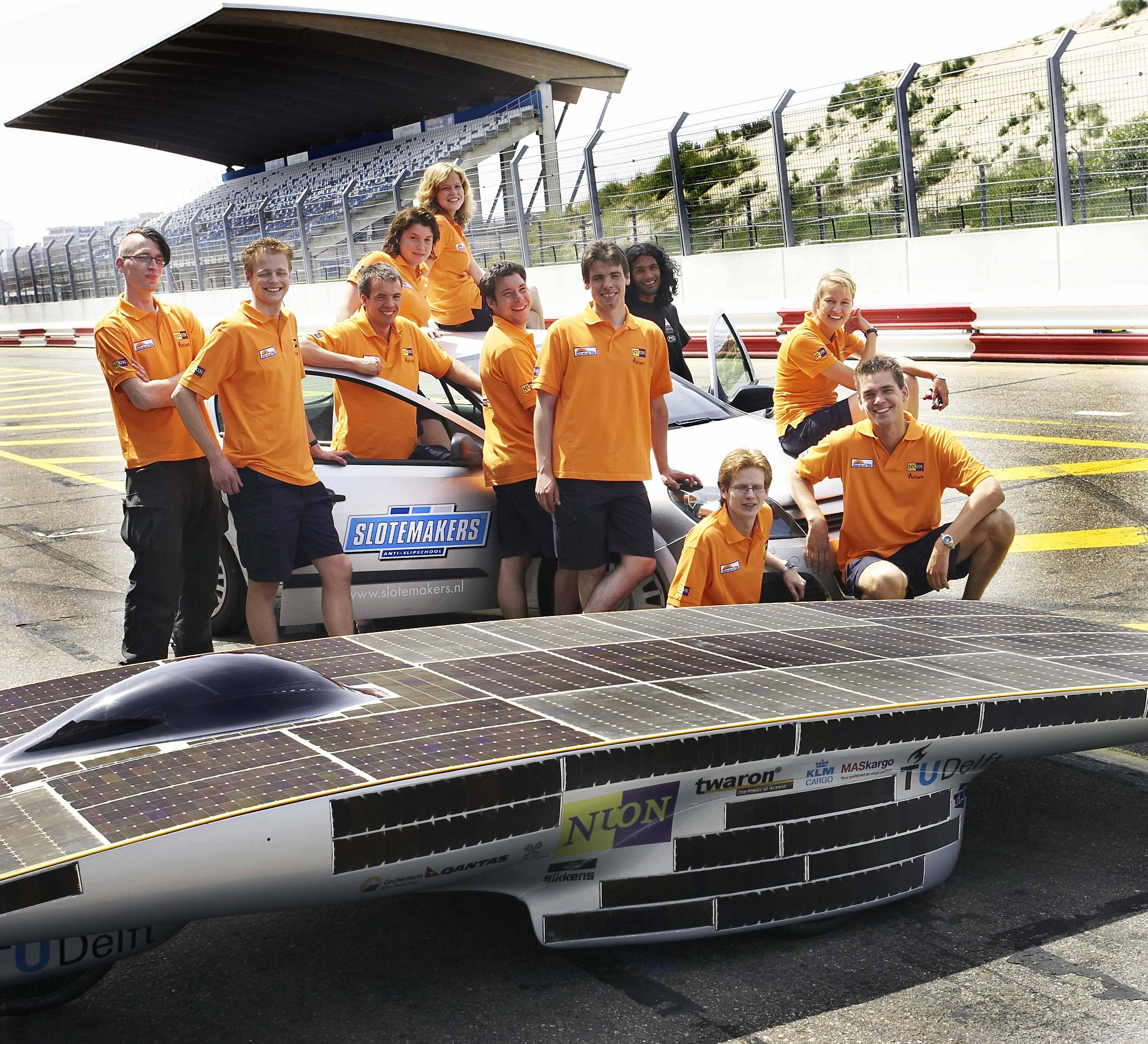 The Nuon Solar Team at the Zandvoort racing track during the presentation of Nuna 3 to the press Left to right: Oskar van Dijk, Sander Zijlstra, Job van de Kieft, Laura Bronkhorst, Anne-Marie Rasschaert, Jeroen Bink, Barend Lubbers, Vinay Ramnath, Frank van den Hoogen, Véronique Duponselle and Jorrit Lousberg. In the front: Nuna3